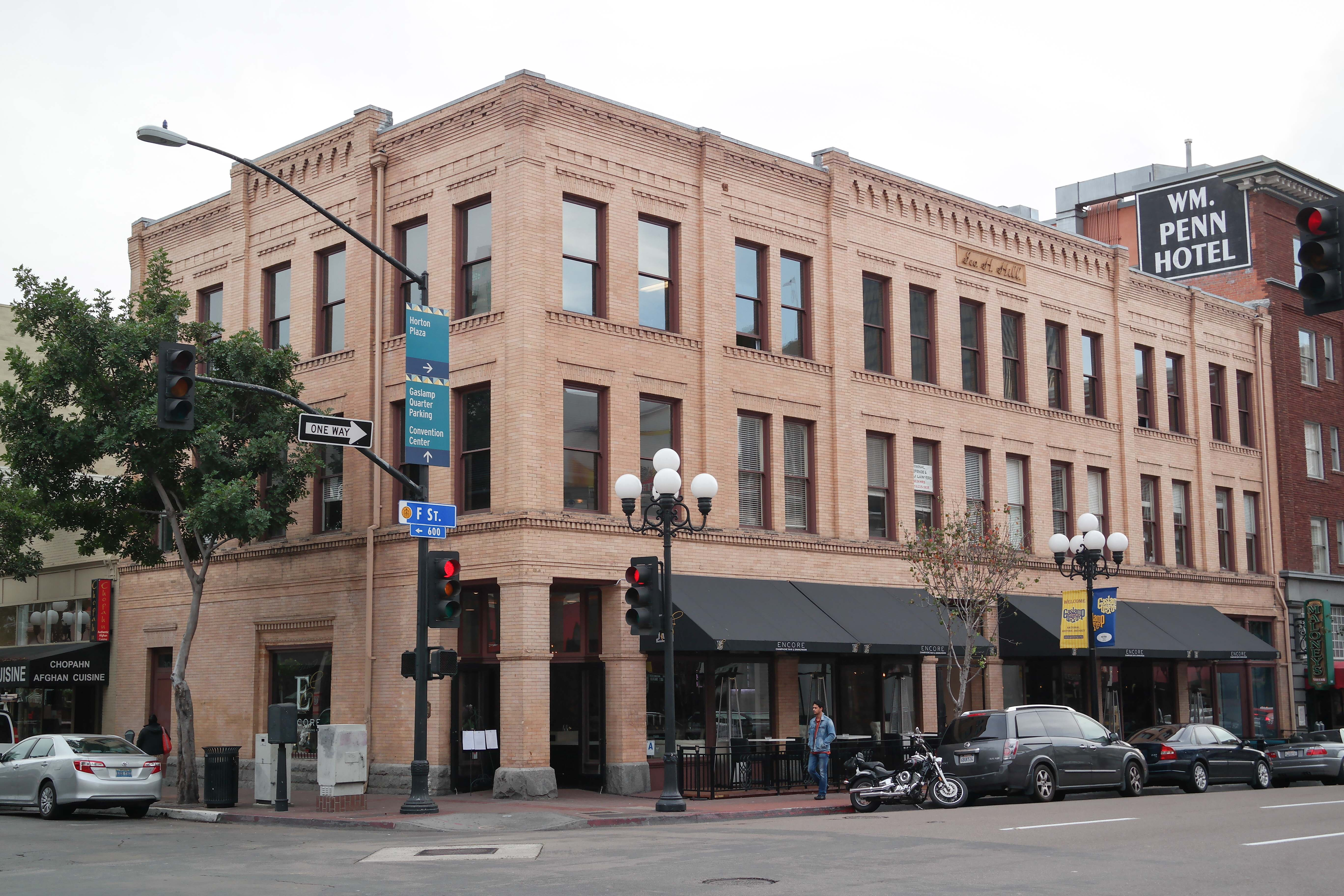 Historic Building Survey plaque: "75 The George Hill Building, 1897. This three-story structure was built to replace the landmark Horton's Hall, which was partially destroyed by fire. The building was designed for five storerooms on the first floor, and thirty offices on the upper floors. The San Diego Normal School, now San Diego State University, once leased space on the upper floors. In 1920, the Ratner Cap Manufacturing Company, the fifth largest operation of its kind in the U.S. and first on the West Coast, moved in. Ratner's later bought the copyrights to the Hang Ten trade name and footprint design."